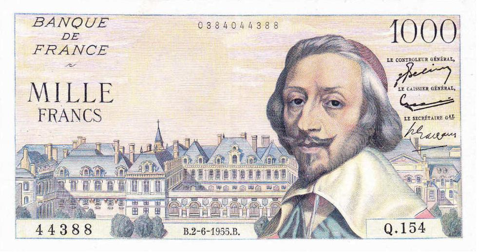 France 1000 francs Richelieu 01